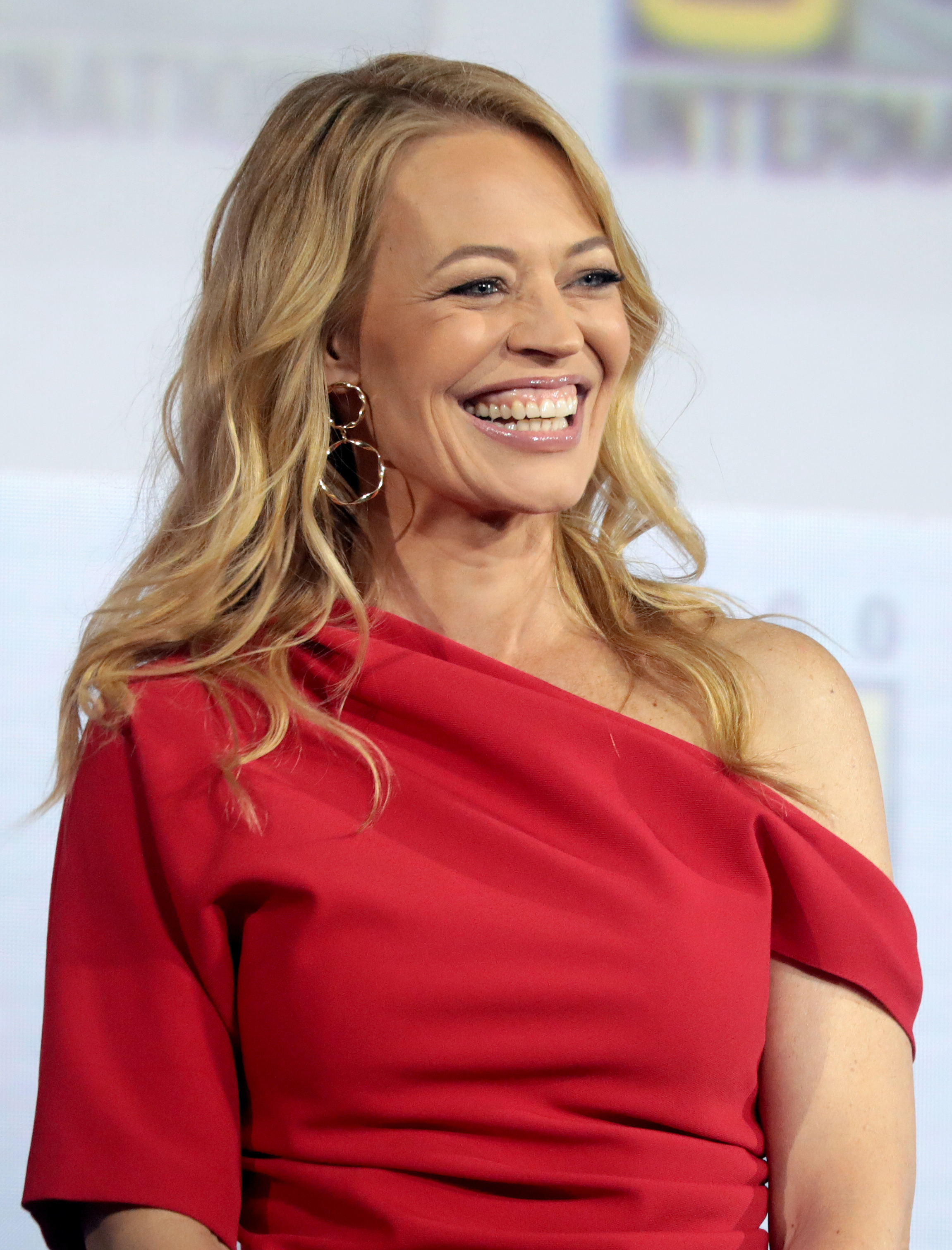 Jeri Ryan speaking at the 2019 San Diego Comic-Con International in San Diego, California.